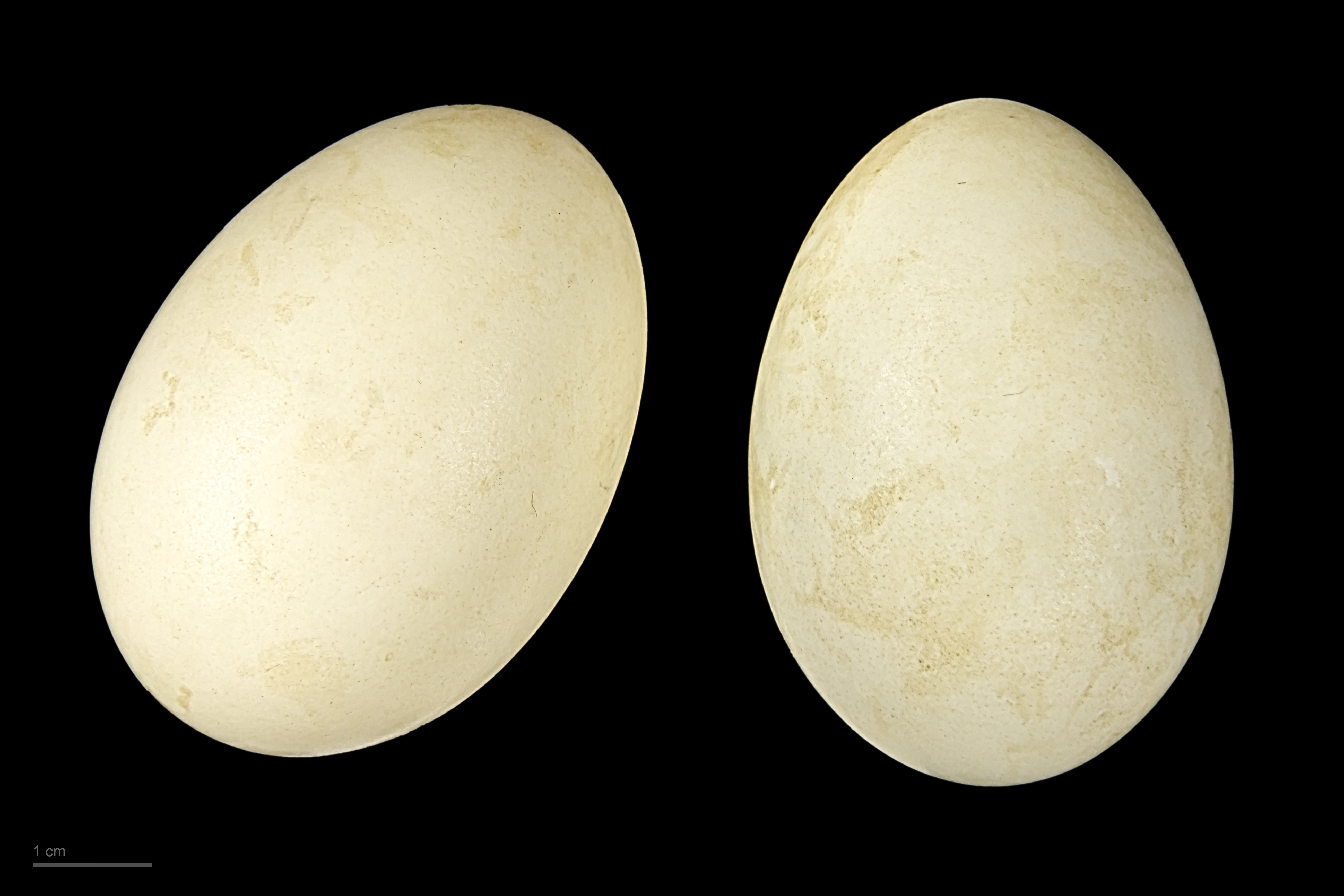 Egg of gadwall Collection of Jacques Perrin de Brichambaut.